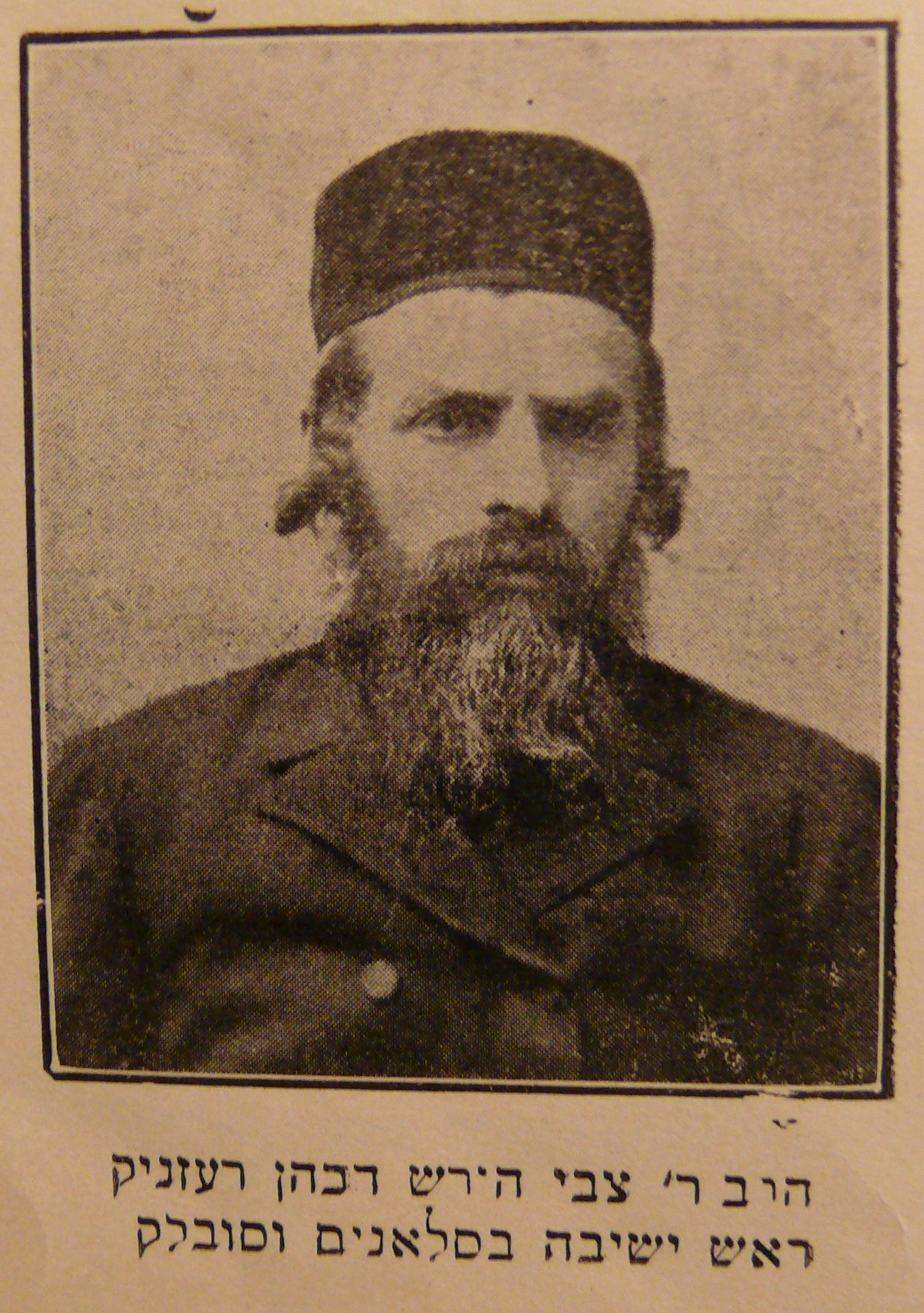 Photo of Rabbi Zvi Yosef Resnick, that appeared in "Otzar Hatemunot" (edited by Benzion Eisenstadt), a book of photos of rabbis, published in 1909. (A photo of Resnick at a more advanced age would appear in the 1915 book, "Otzar Temunot," by the same editor.) Caption reads: Rabbi Zvi Hirsch HaKohen Resnick, Rosh yeshivah in Slonim an Suvalk.